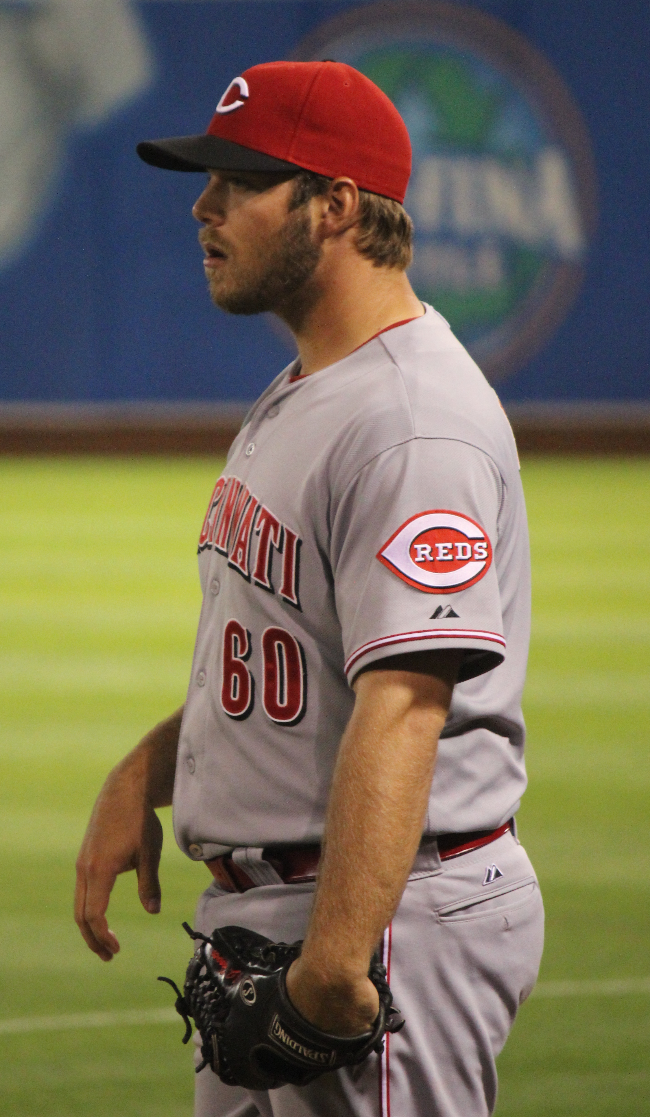 Photo of J. J. Hoover, 2013-06-25, Oakland CA